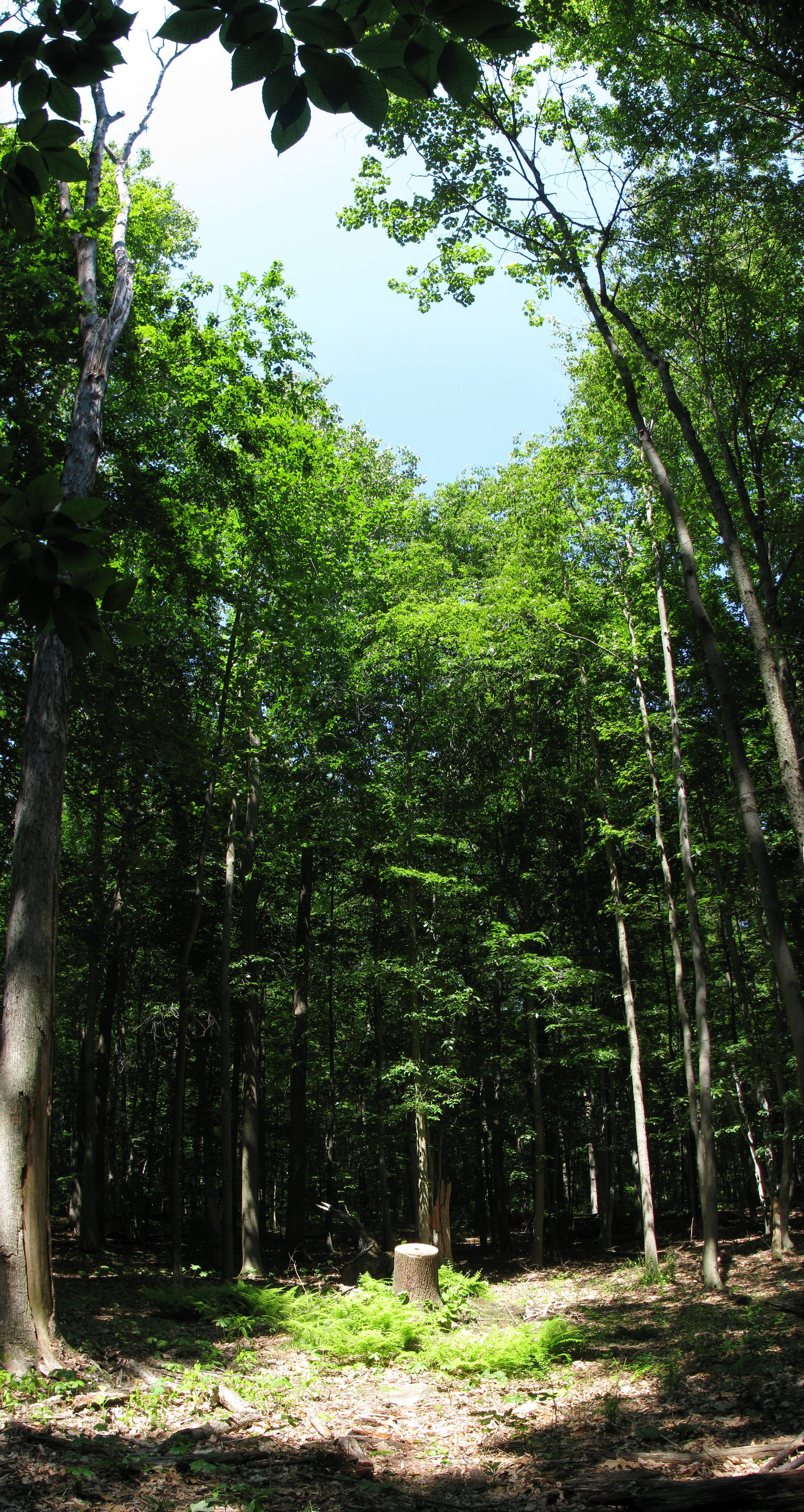 A photo of a gap in the forest where a tree has been cut down. The gap is illustrated by sky visible through the top of the gap and direct sunlight on the ground around the stump. A dead tree at the edge of the gap contributes to the clearing.